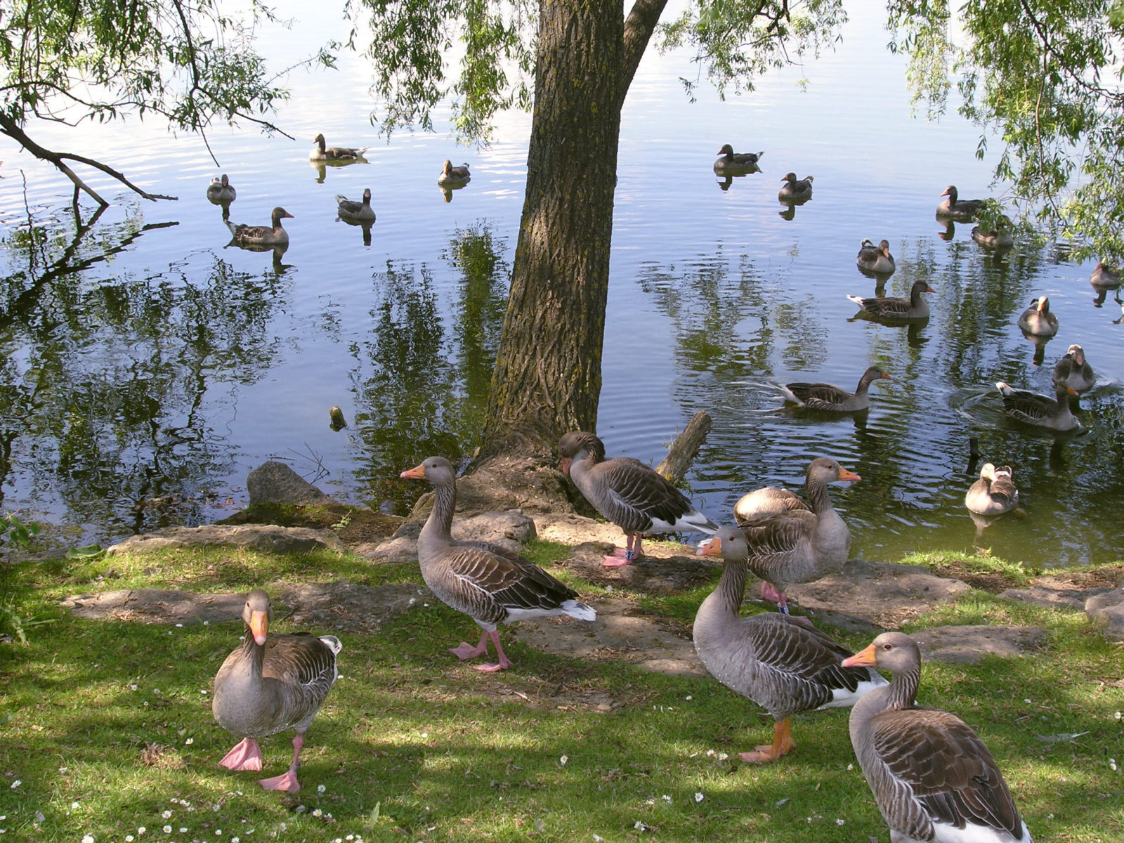 Max-Eyth-See. An artificial lake in the north of Stuttgart / Germany Date: 7 June 2006